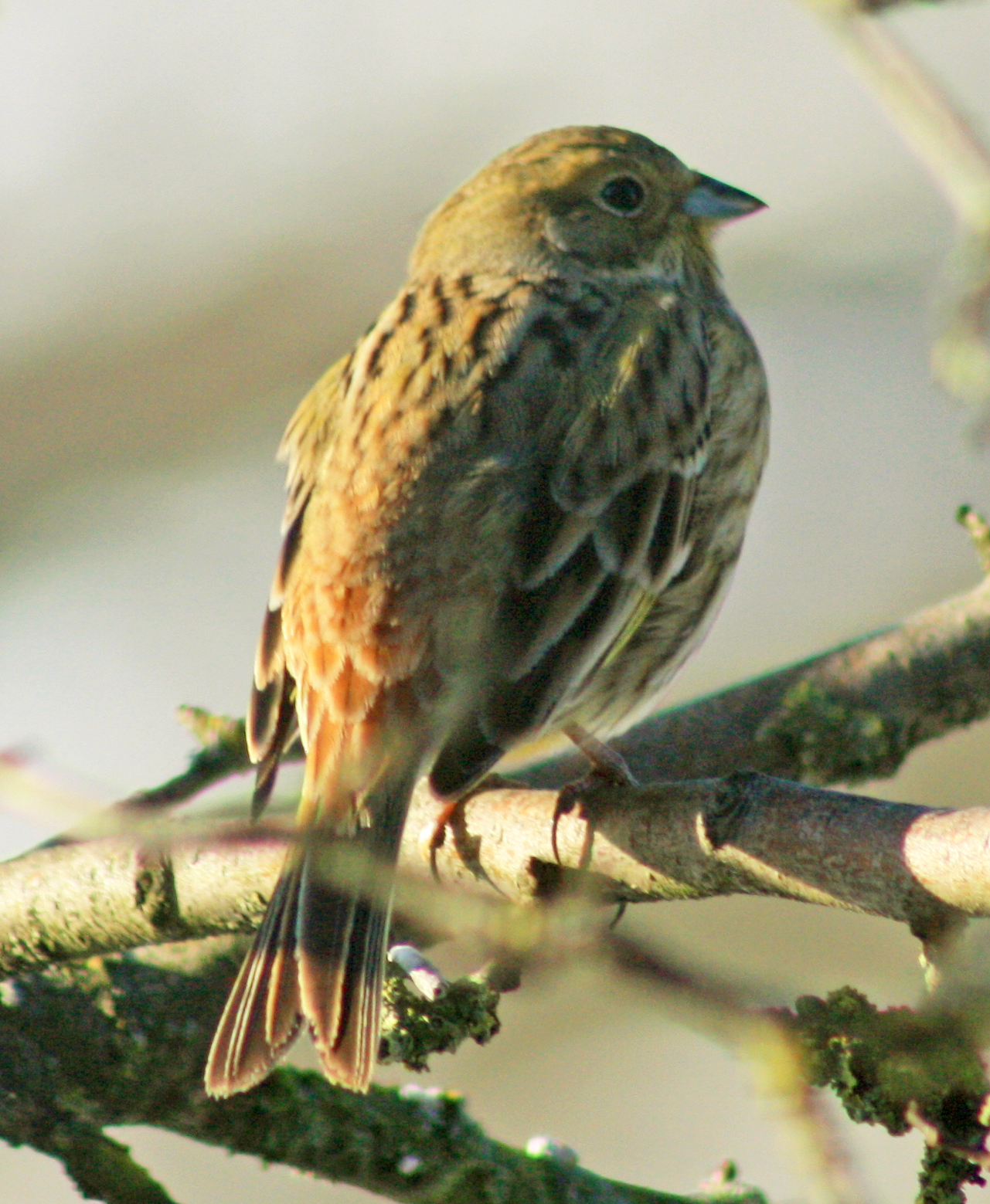 Yellowhammer in winter